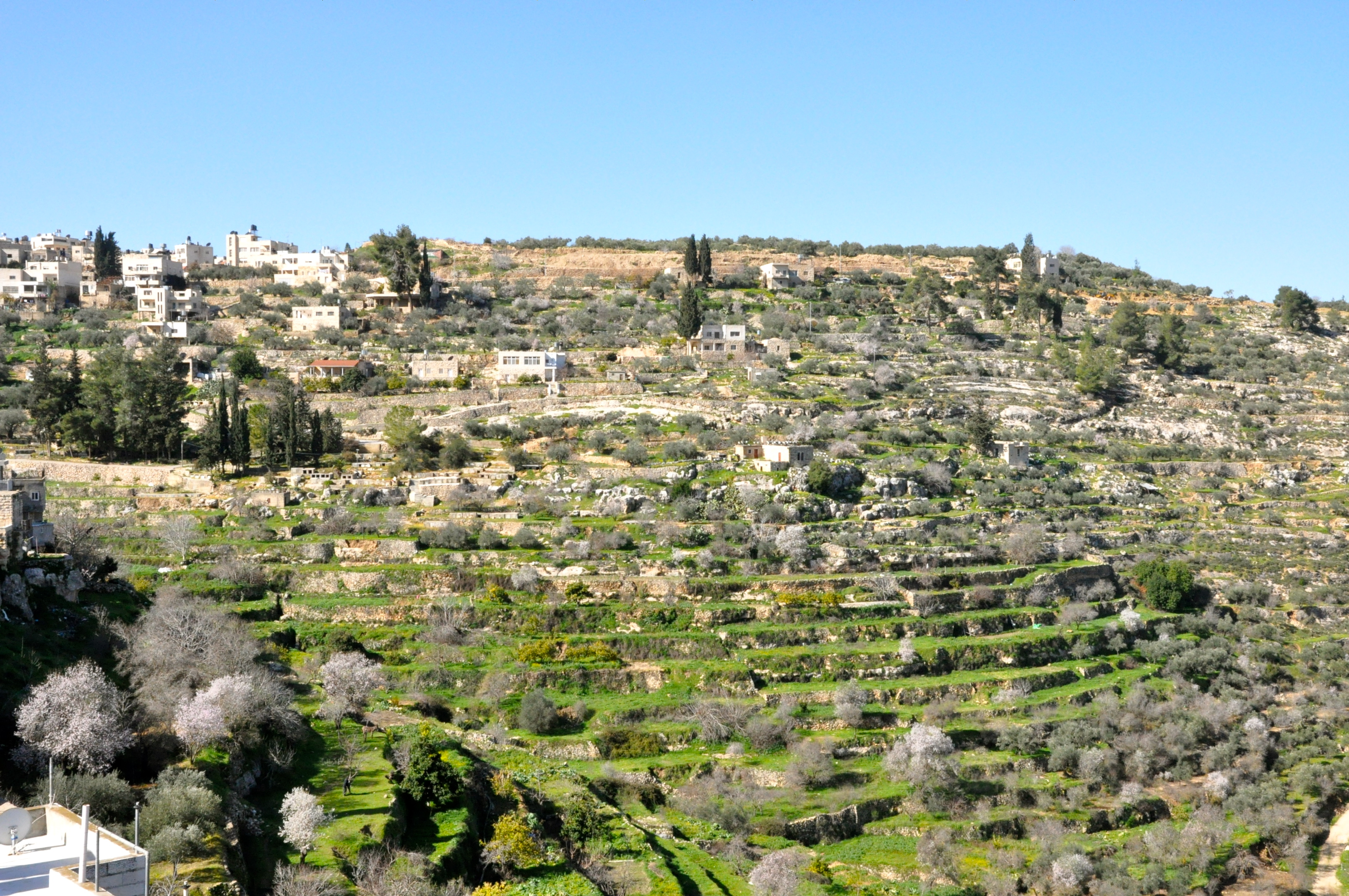 Village of Battir- UNESCO World Heritage Status for its 4,000-year-old pe-roman (Canaanite) irrigation system